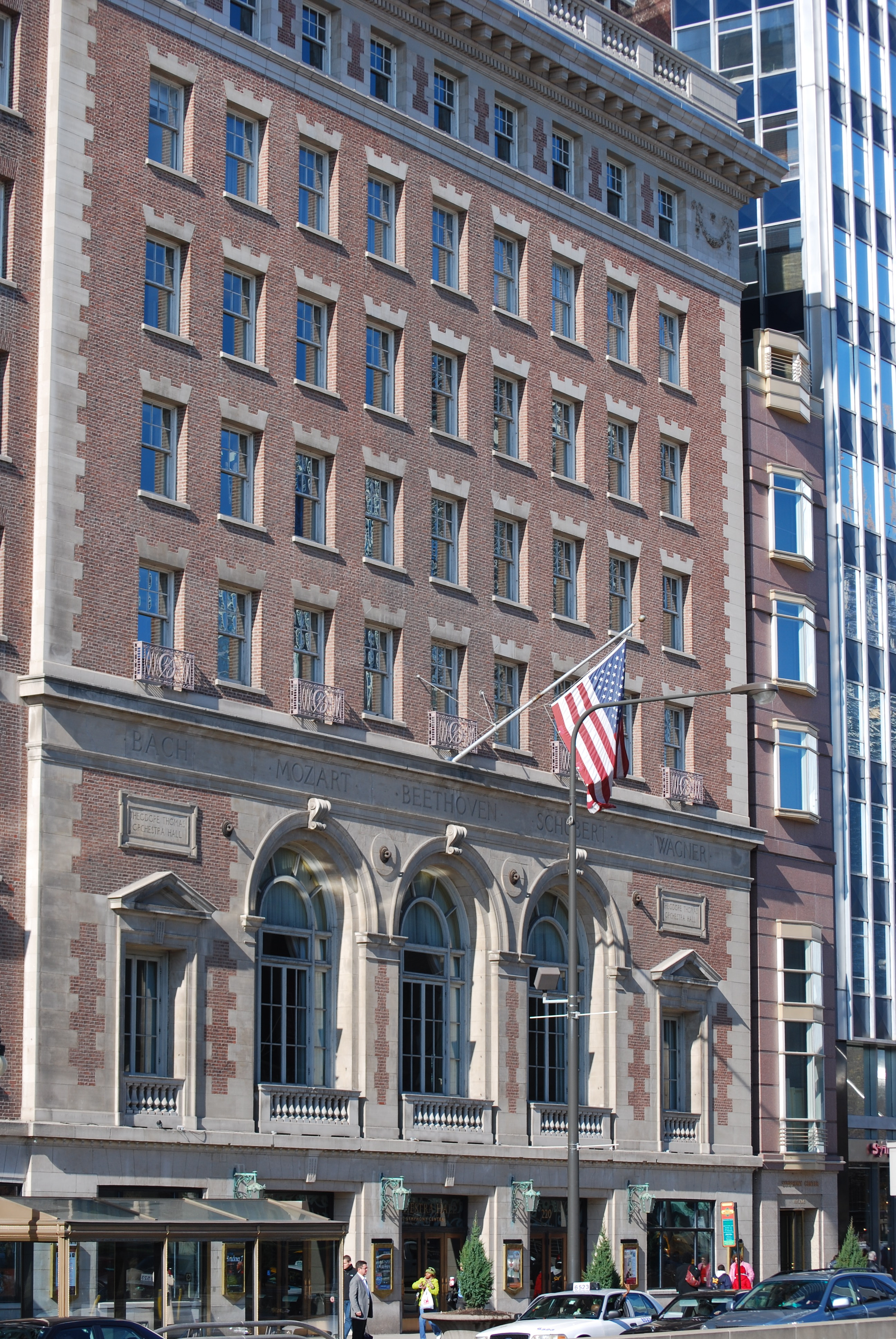 Orchestra Hall in Chicago, IL